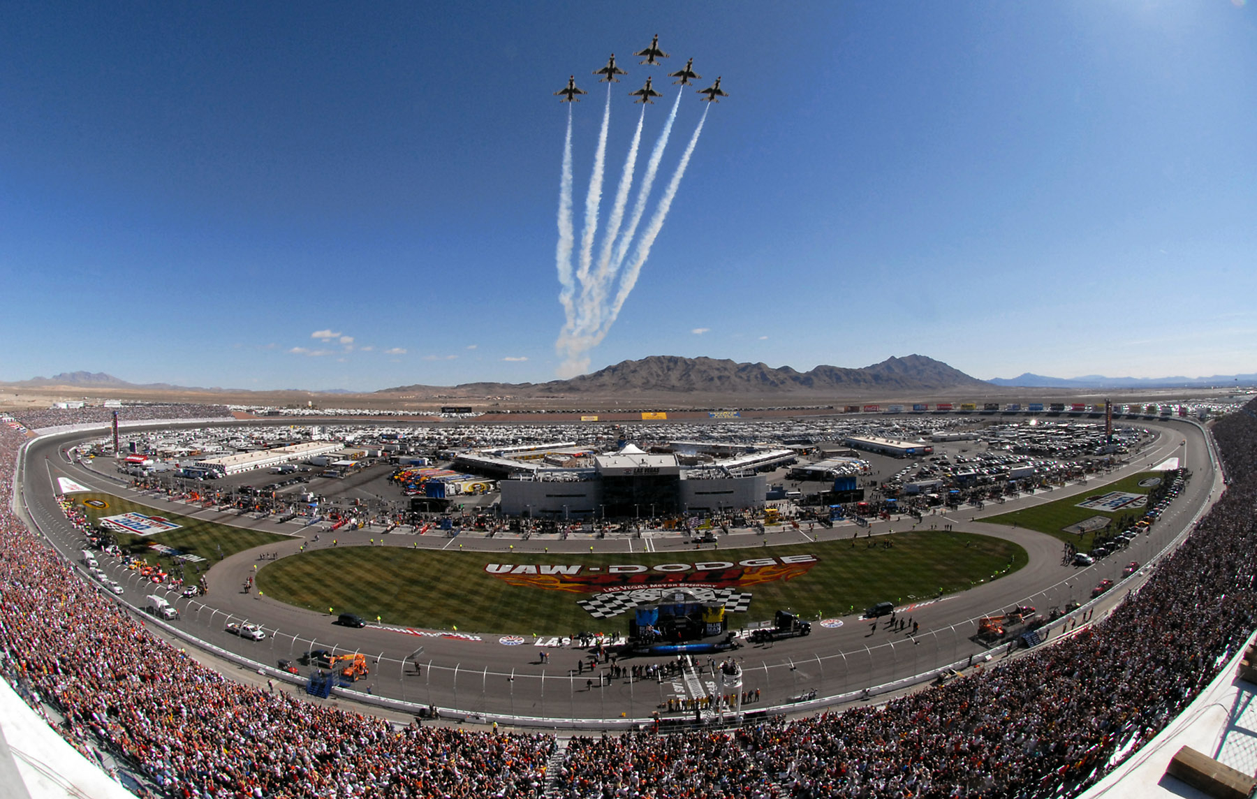 Las Vegas Motor Speedway before the NASCAR UAW-Dodge 400 Sprint Cup Series race.